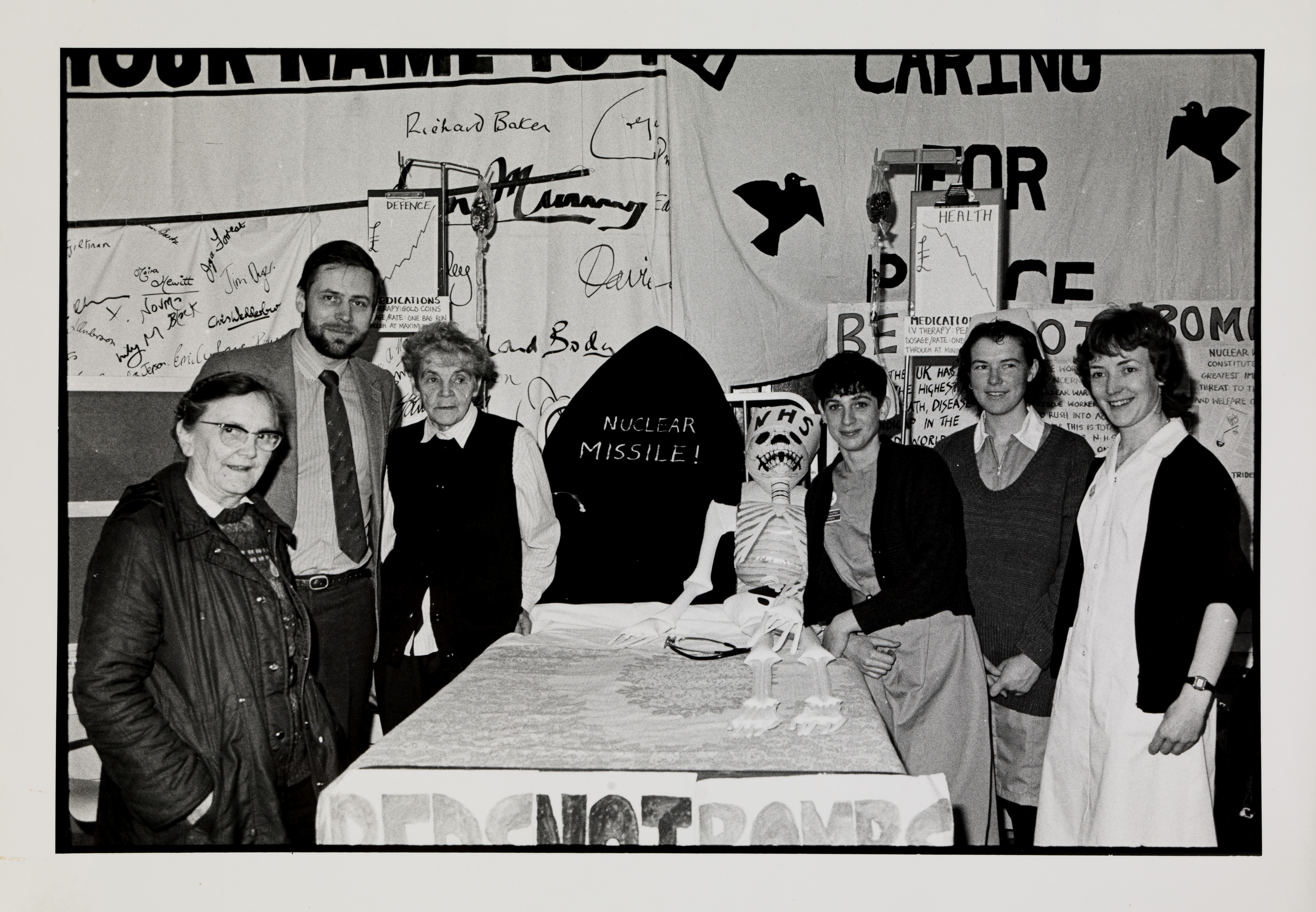 Dr Alice Stewart with Edinburgh doctors and nurses. Skeleton wearing a NHS hat. Beds Not Bombs. Medact was formed in 1992 as a merger between the Medical Campaign Against Nuclear Weapons (MCANW) and the Medical Association for the Prevention of War (MAPW). Archives & Manuscripts